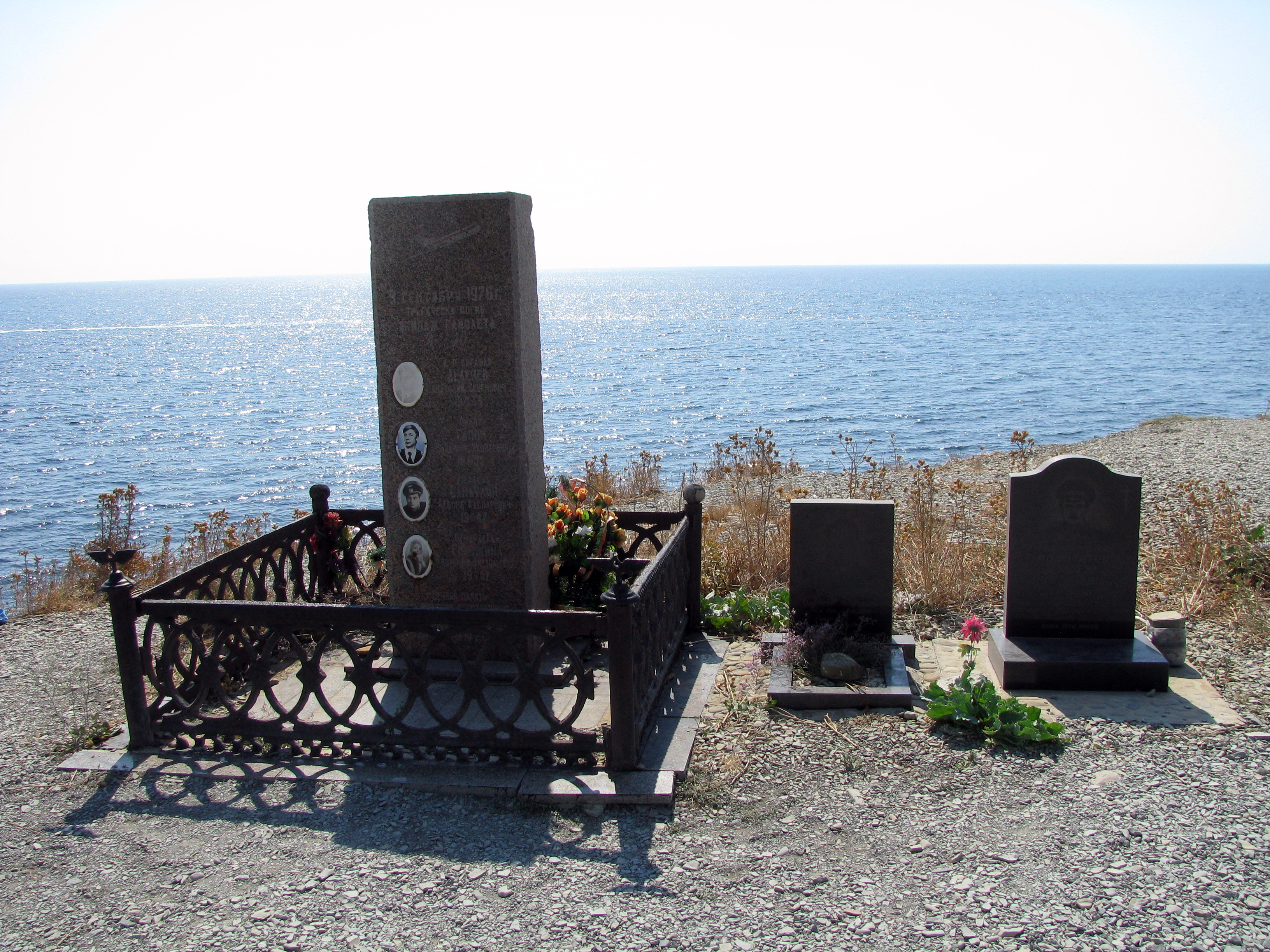 Yak-40 crew memorial, Ostrov Utrish near Bolshoy Utrish village